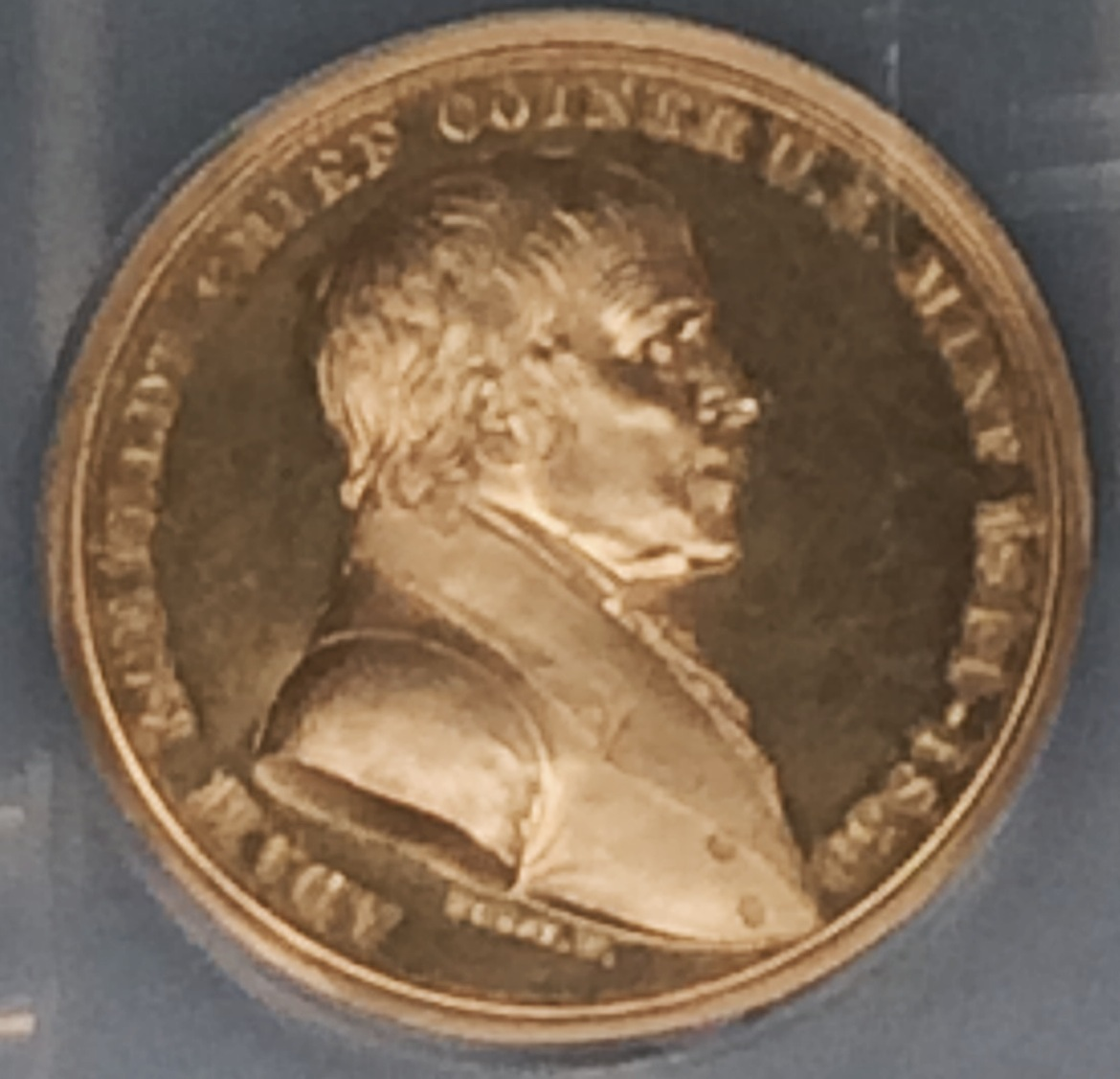 The actual gold medal presented to US Mint Chief Coiner Adam Eckfeldt on retirement in 1839. Displayed at the 2014 American Numismatic Association convention